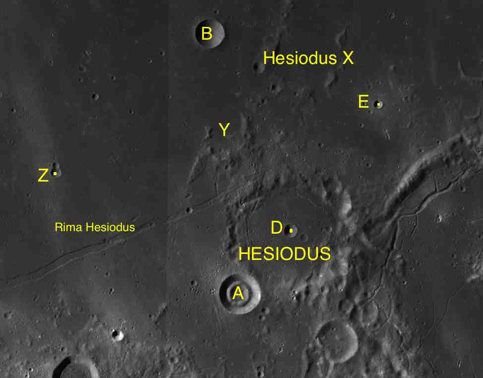 Part of the chart LAC-94 used for the presentation